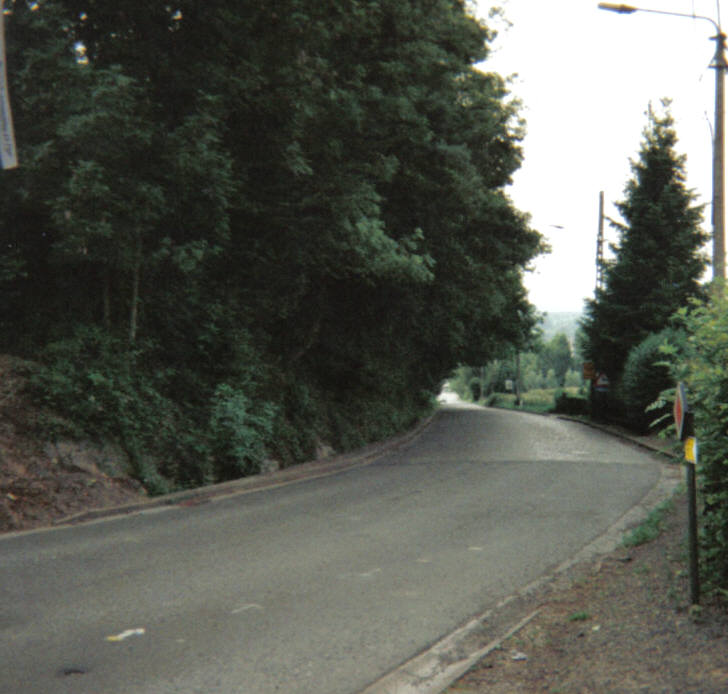 The Kattenberg, a hill in greater Oudenaarde, Belgium. Its foot lies in Ename, its top in Mater.